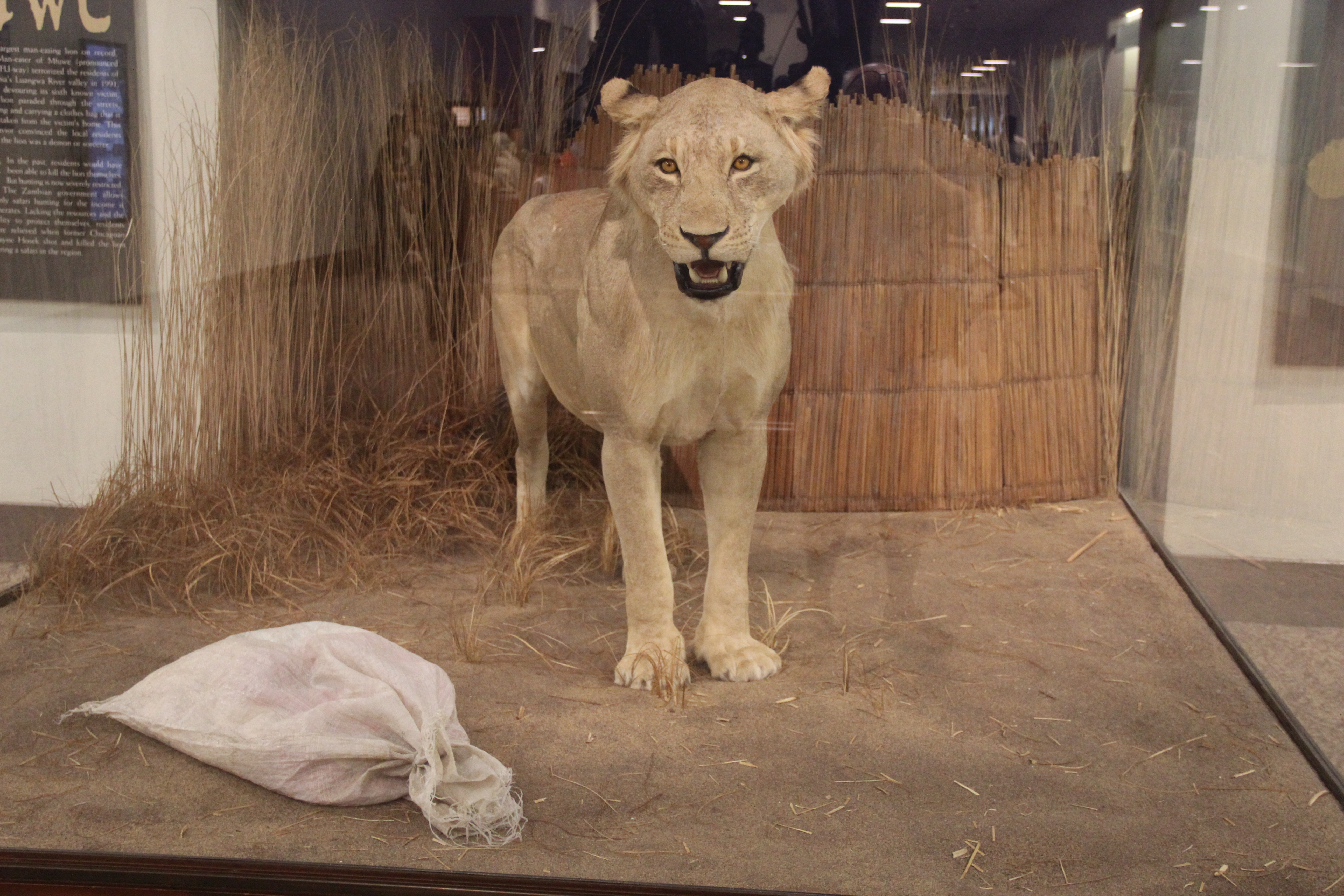 Field Museum of Natural History, Chicago, Illinois, USA. Complete indexed photo collection at .